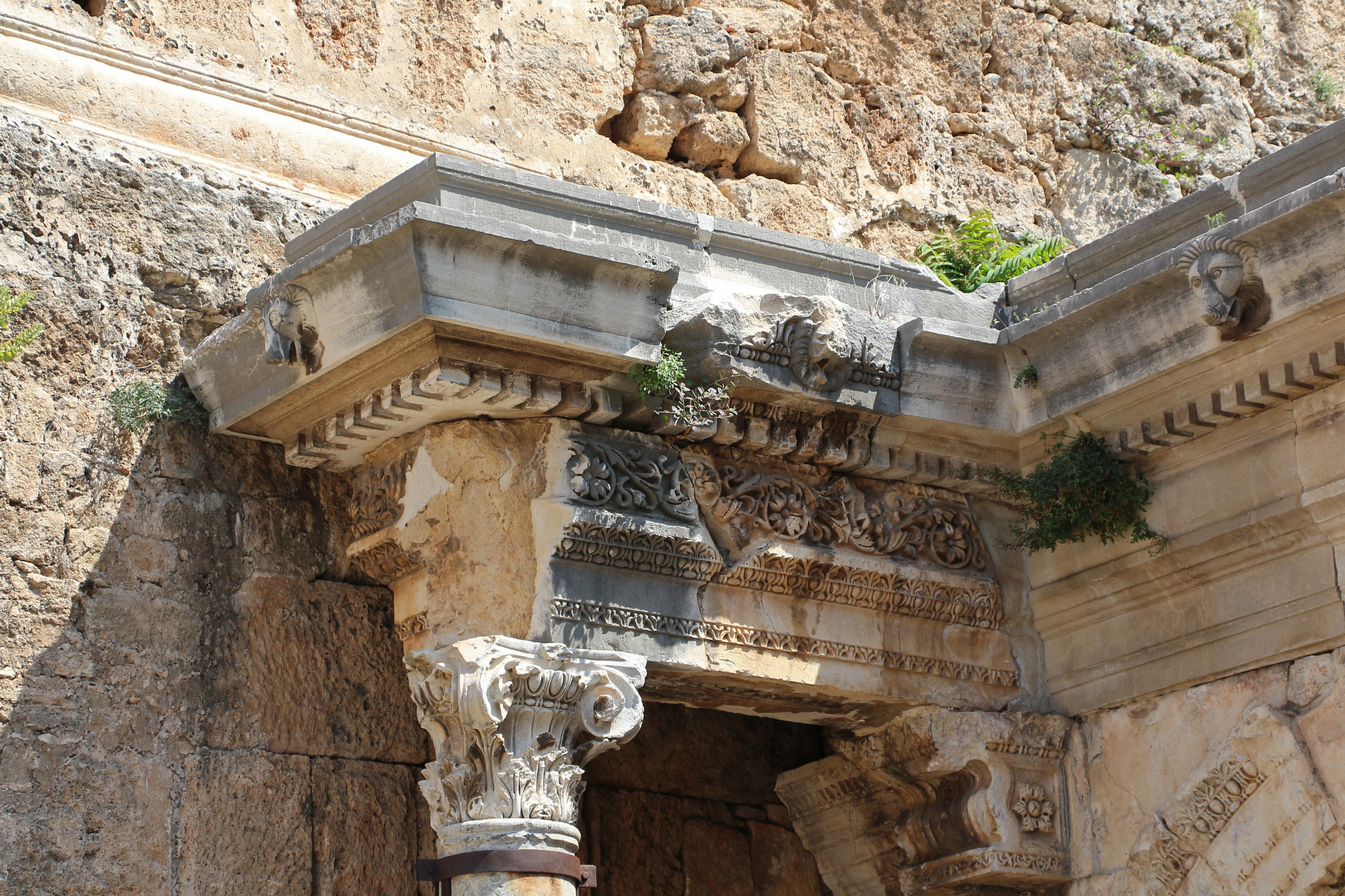 Detail of the Hadrian's Gate, Antalya, Turkey